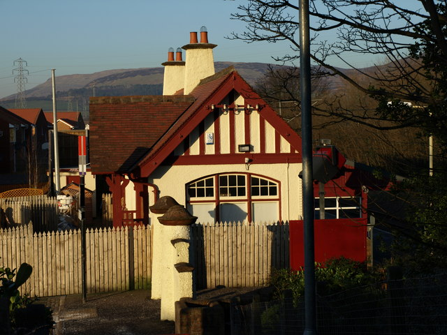 Station, West Kilbride Restaurant now.